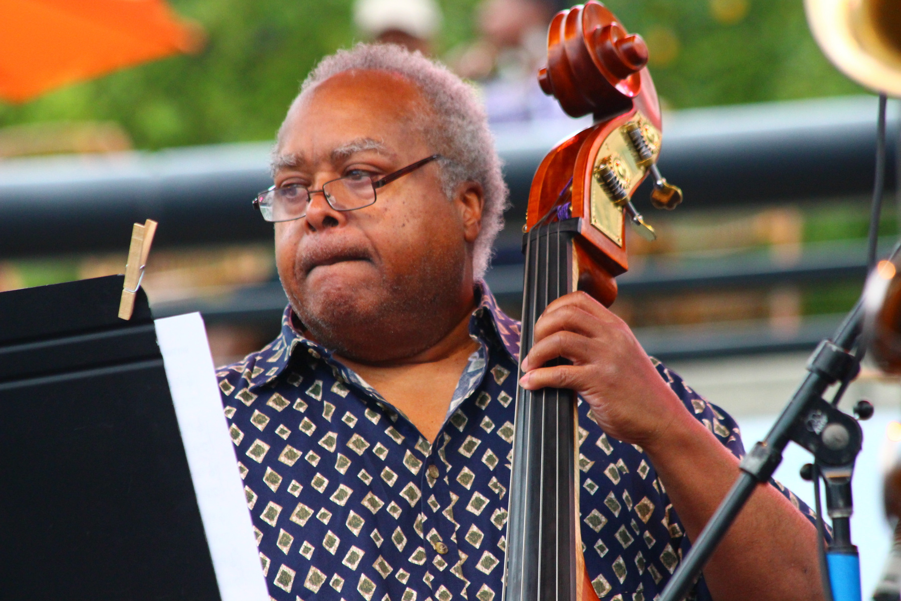 Ray Drummond